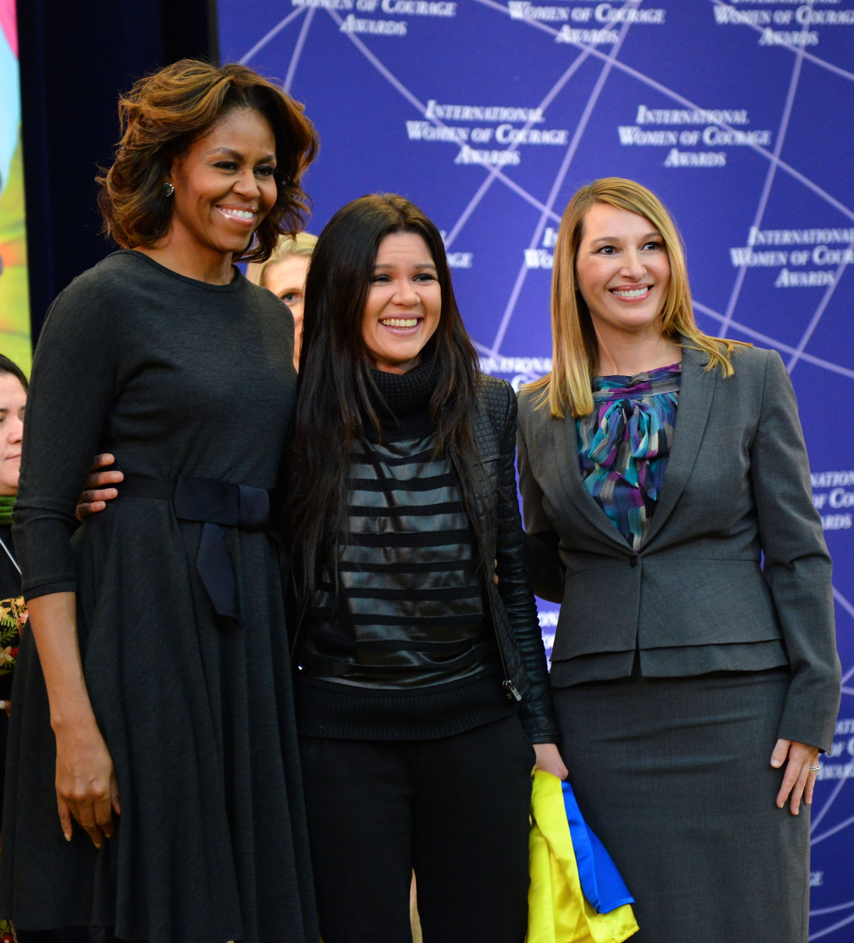 "Deputy Secretary Higginbottom and First Lady Michelle Obama recognized extraordinary women from around the globe with the Secretary of State’s International Women of Courage Award at a ceremony that took place on Tuesday, March 4, 2014, 11:30 a.m. at the Department of State."